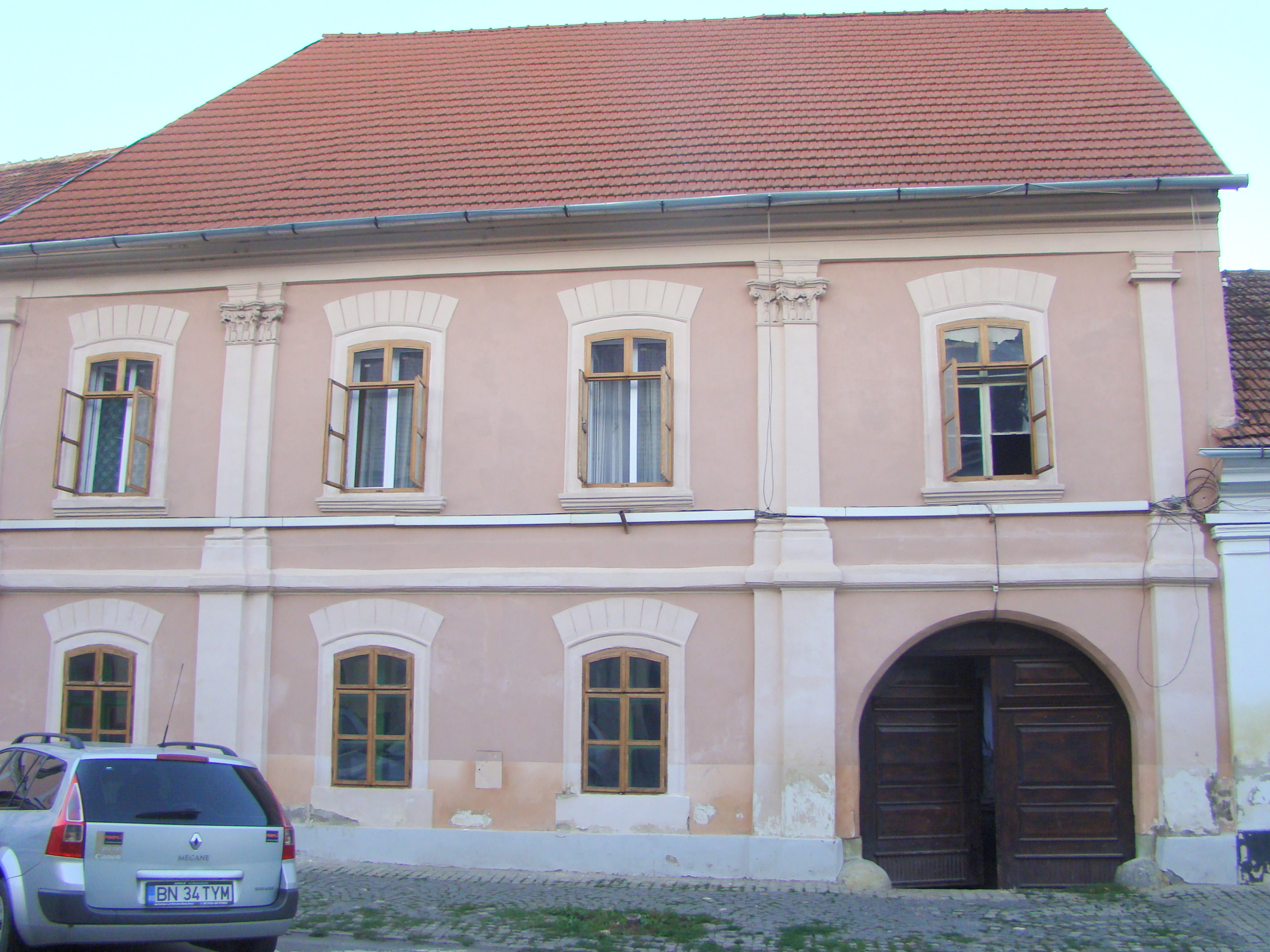 House, historic monument, in Bistrița, Nicolae Titulescu street 13